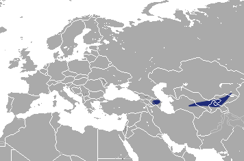 Lesser Rock Shrew (Crocidura serezkyensis) range